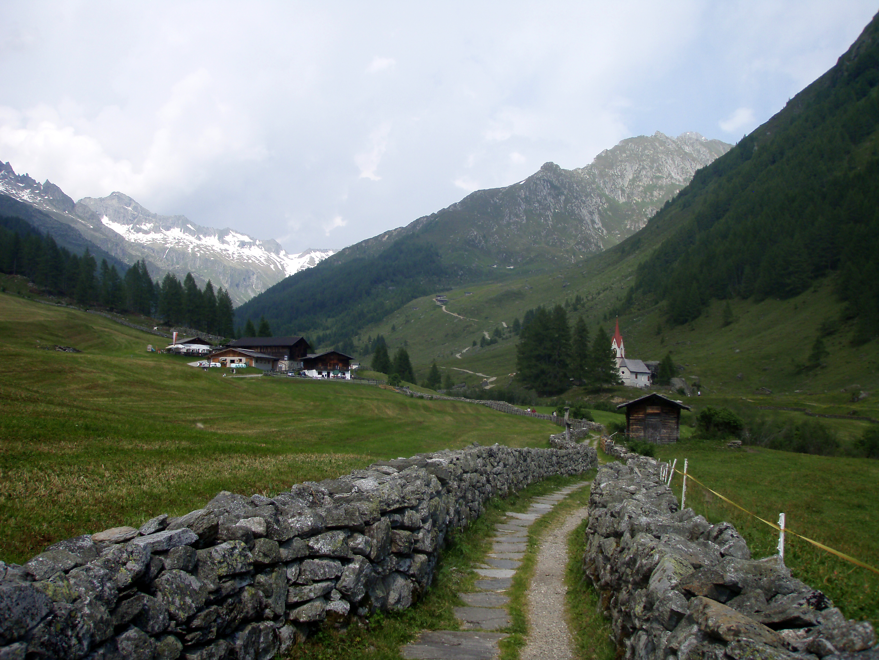 Alpine Peace Crossing is a memory-walk crossing the Krimmler Tauern pass (2.634 m) to remind of displaced persons of Jewish origin, who in 1947 lived in a camp in Saalfelden, Salzburg (state), Austria, and also to remind of refugees of these days. Most of the so called displaced persons had overcome the Nazi-conzentration camps and wanted to immigrate to Eretz Israel. At that time this was illegal and because of the British occupation army stationed in the Austrian part of Tyrol not possible on normal ways (roads, railway..). In summer 1947 therefore every second night about 150 – 200 persons walked 15 hours in the dark – children, women, men and elderly people – crossing the alps on dangerous paths and without proper clothing and shoes to reach the south of Tyrol, since 1920 part of Italy, to leave Europe via the port of Genua.